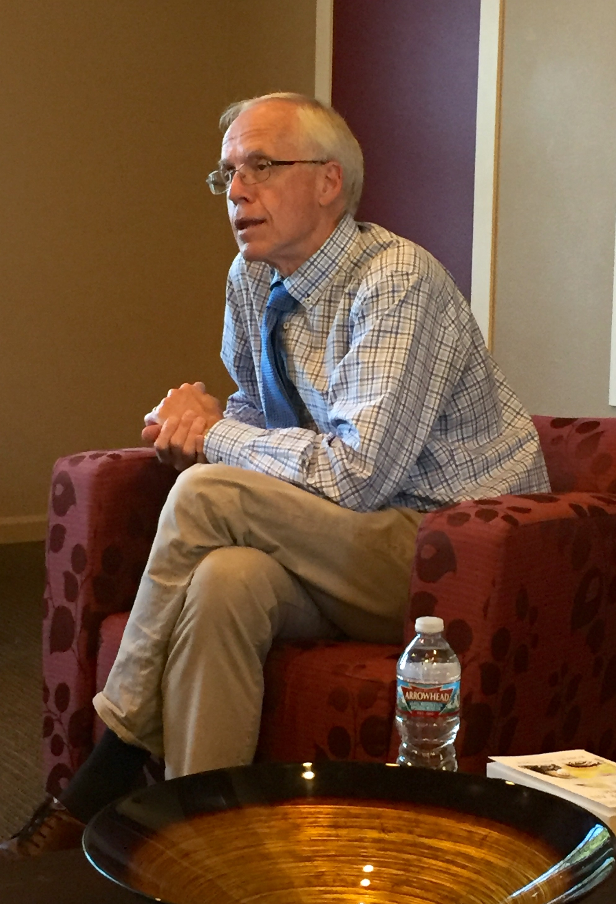 The next Governor of Oregon, Dr Bud Pierce